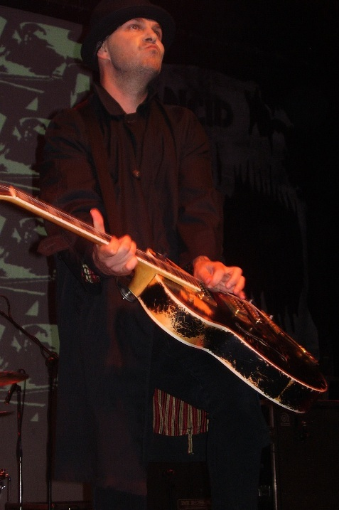 Picture of Tim taken at Rancid live show in Ventura Theater Sept 24 2008